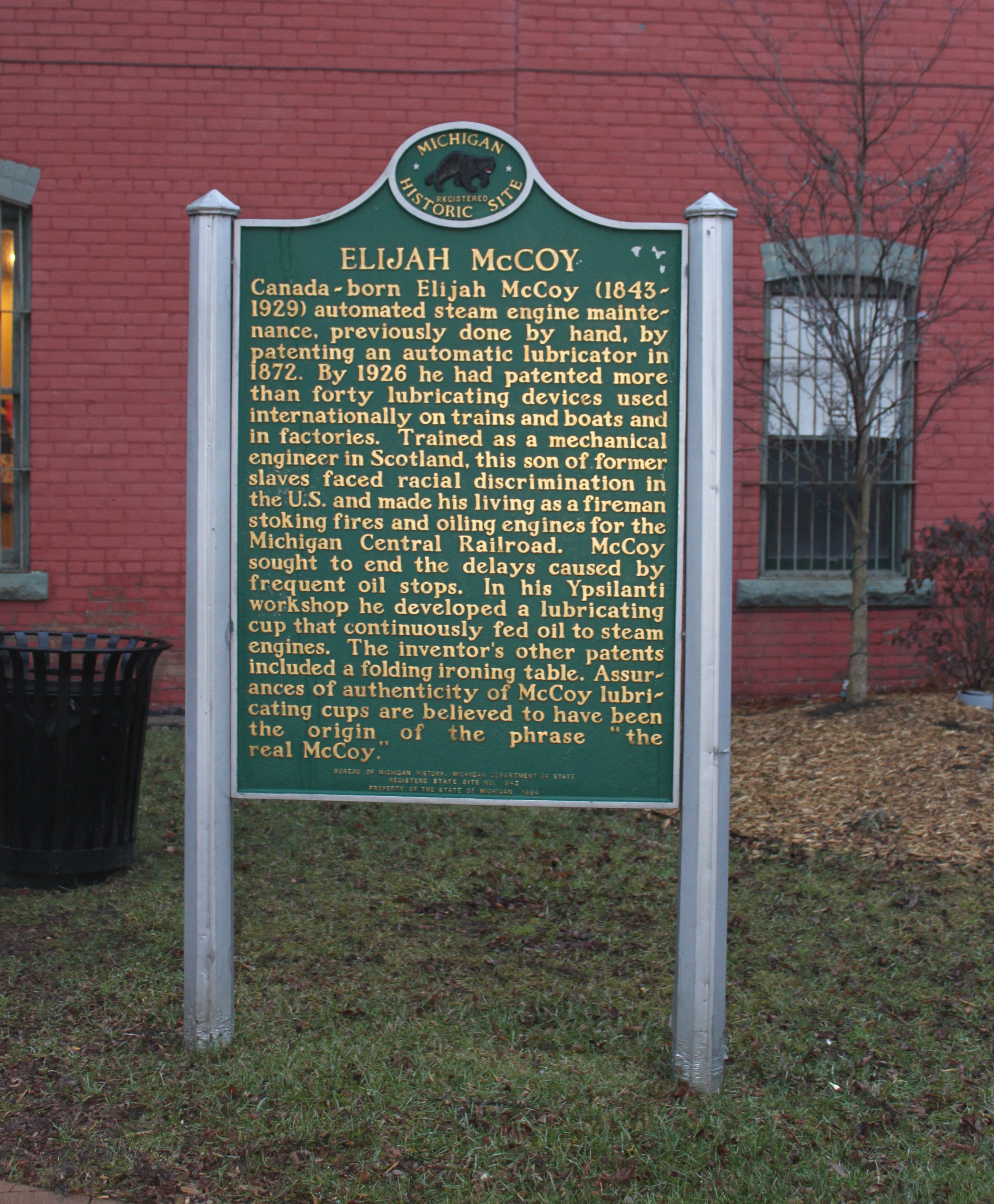 Elijah McCoy commemorative historical marker, Ypsilanti District Library, 229 West Michigan Avenue, Ypsilanti, Michigan. The site is a Registered Michigan State Historic Site.